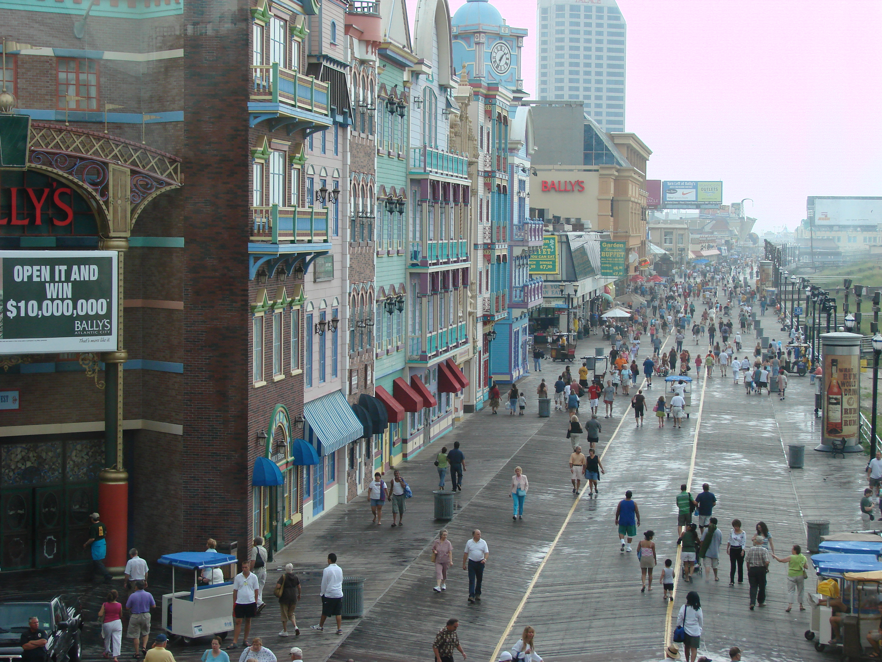 Atlantic City (NJ) - The boardwalk in a rainy day